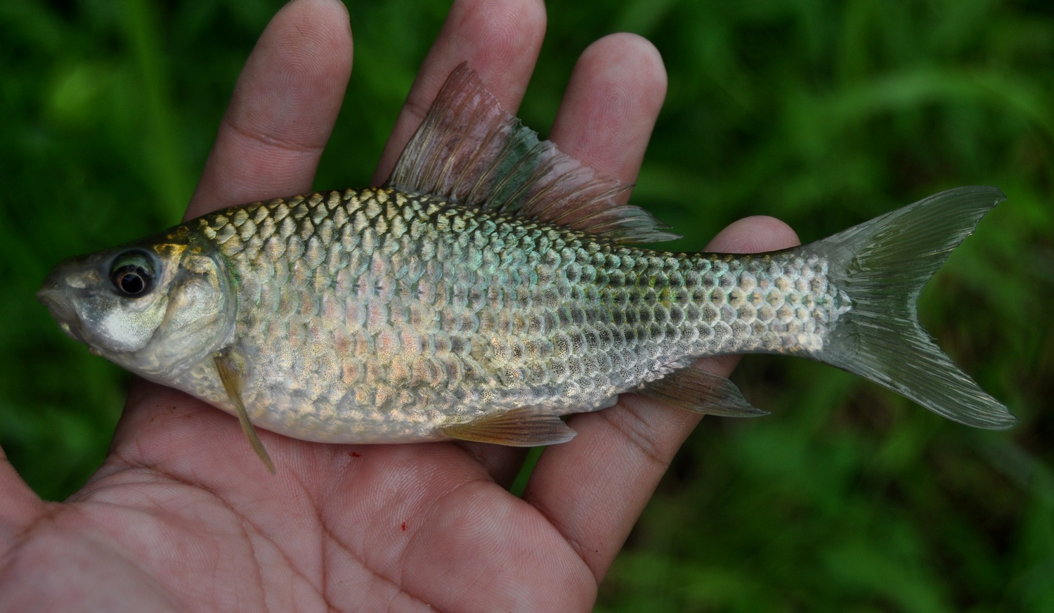 Hard-lipped Barb (Osteochilus hasseltii, syn. O. vittatus), 118 mm SL, From Tasikmalaya, West Java, Indonesia.